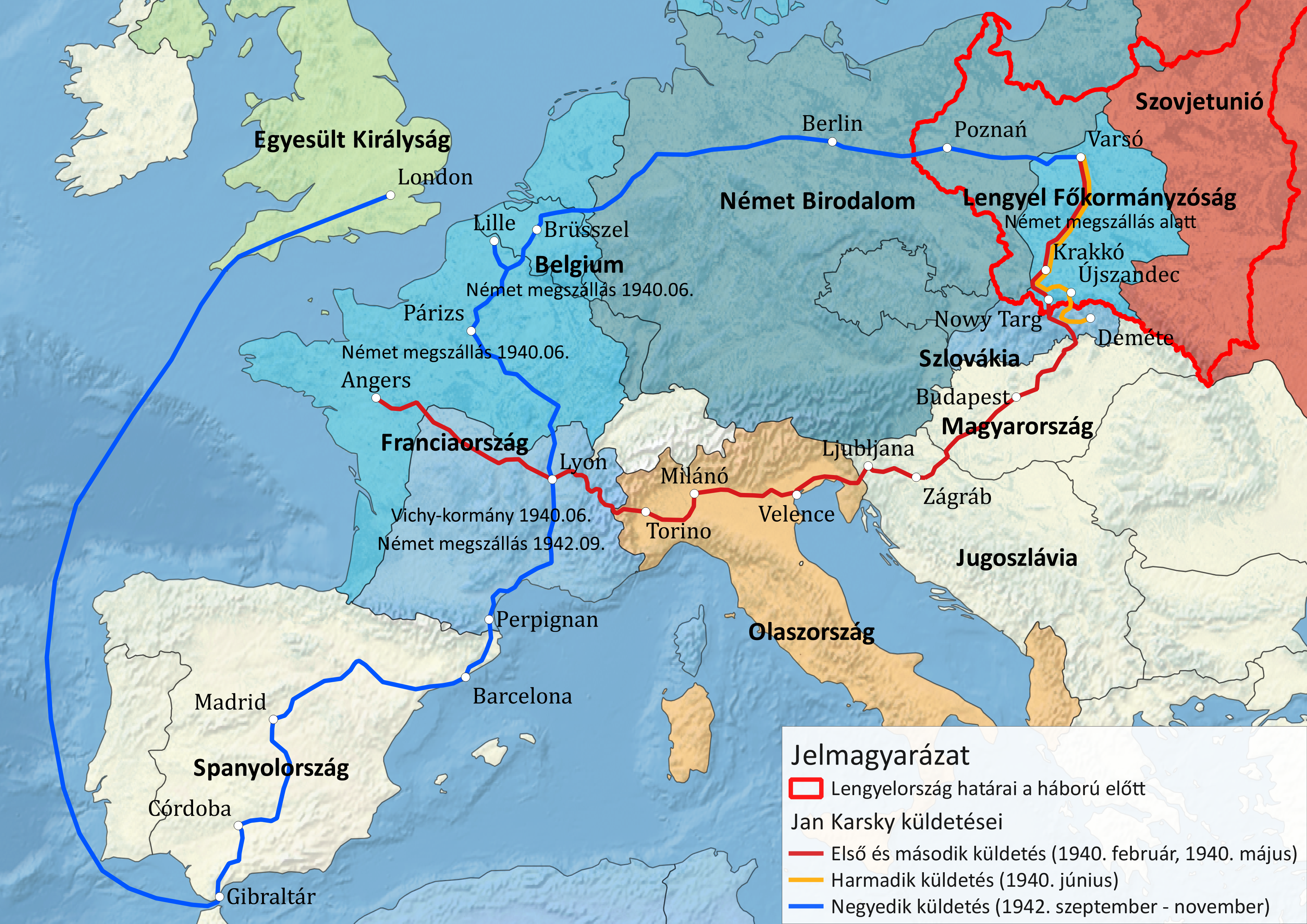 Jan Karski's missions (in Hungarian)